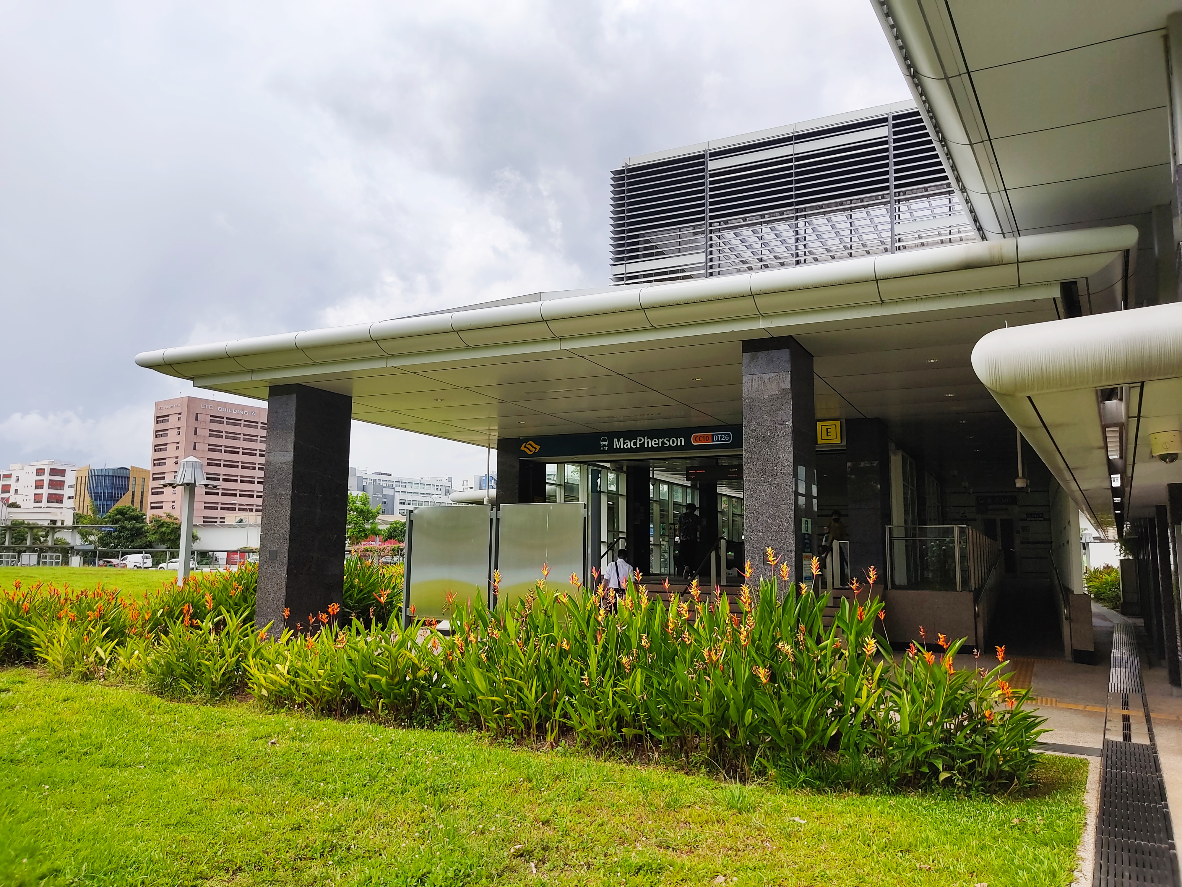 New photo